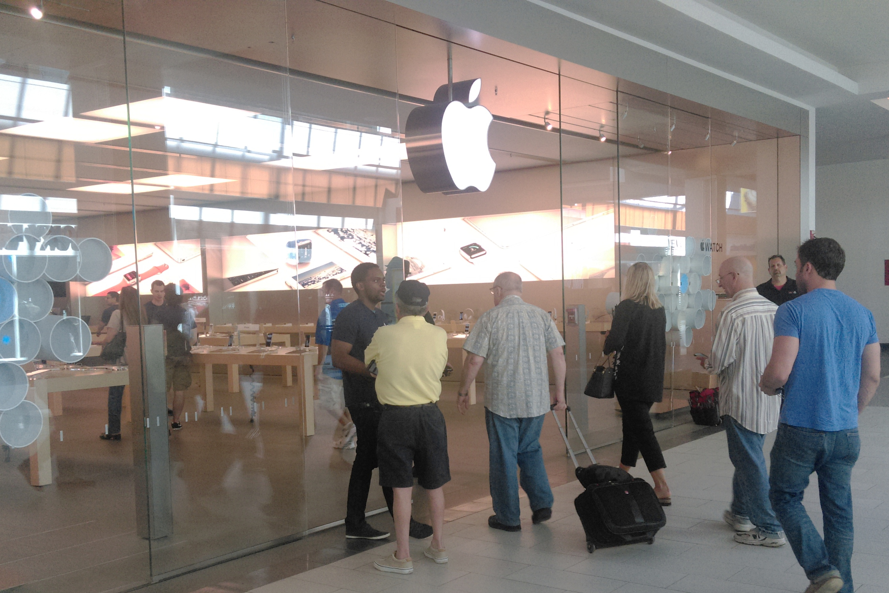 Looking east at Apple Store in Garden City as doors open on the first day of sale of Apple Watch.